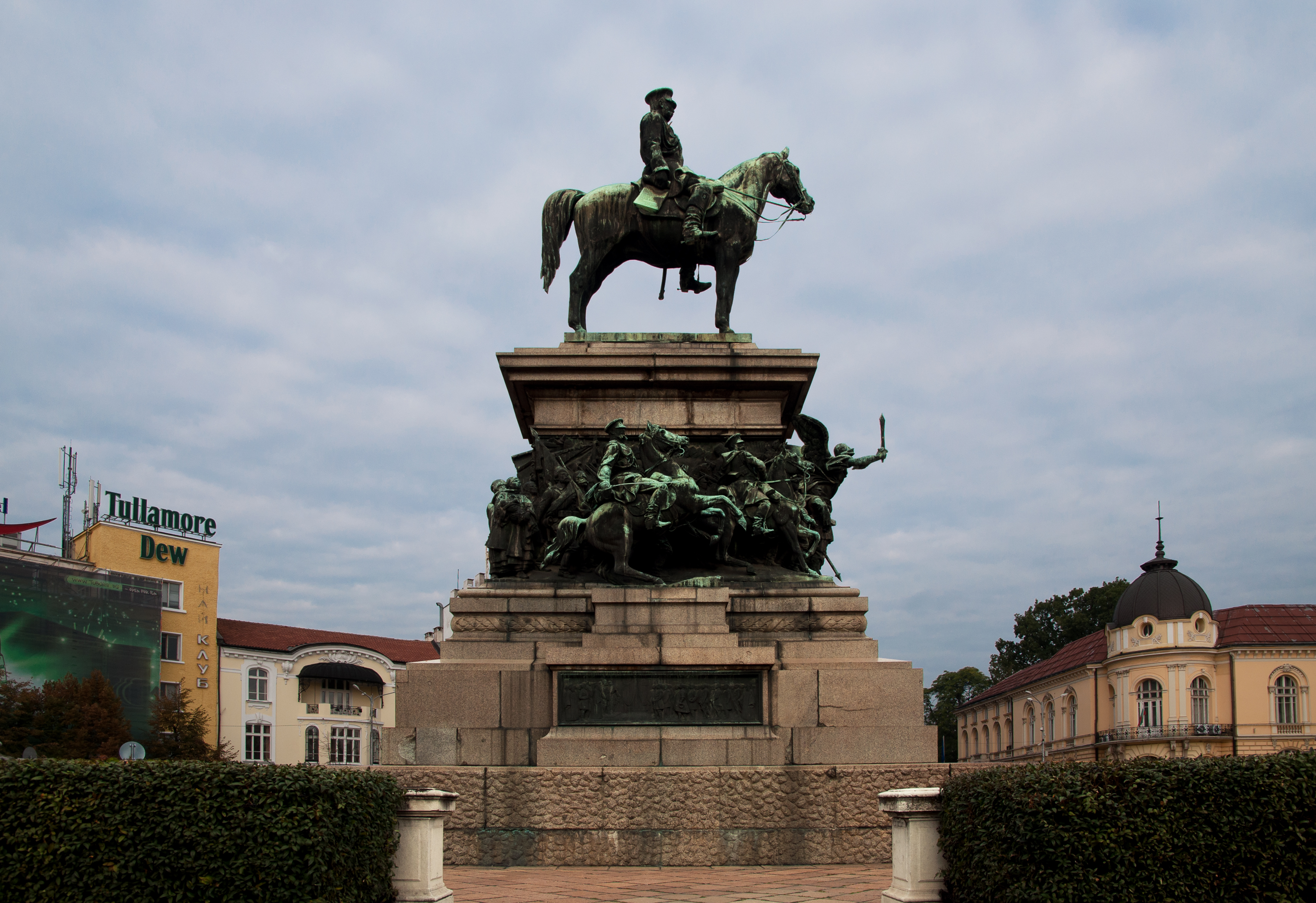 The monument to the Tsar Liberator in front of the Bulgarian parliament.